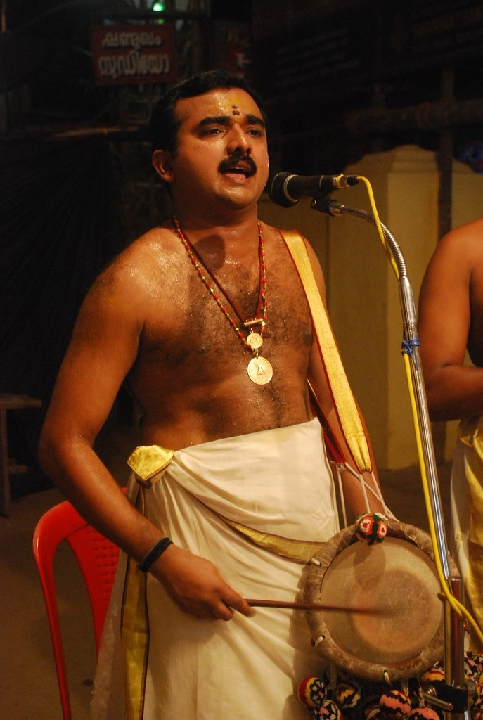 Ambalapuzha Vijayakumar singing sopanageetham